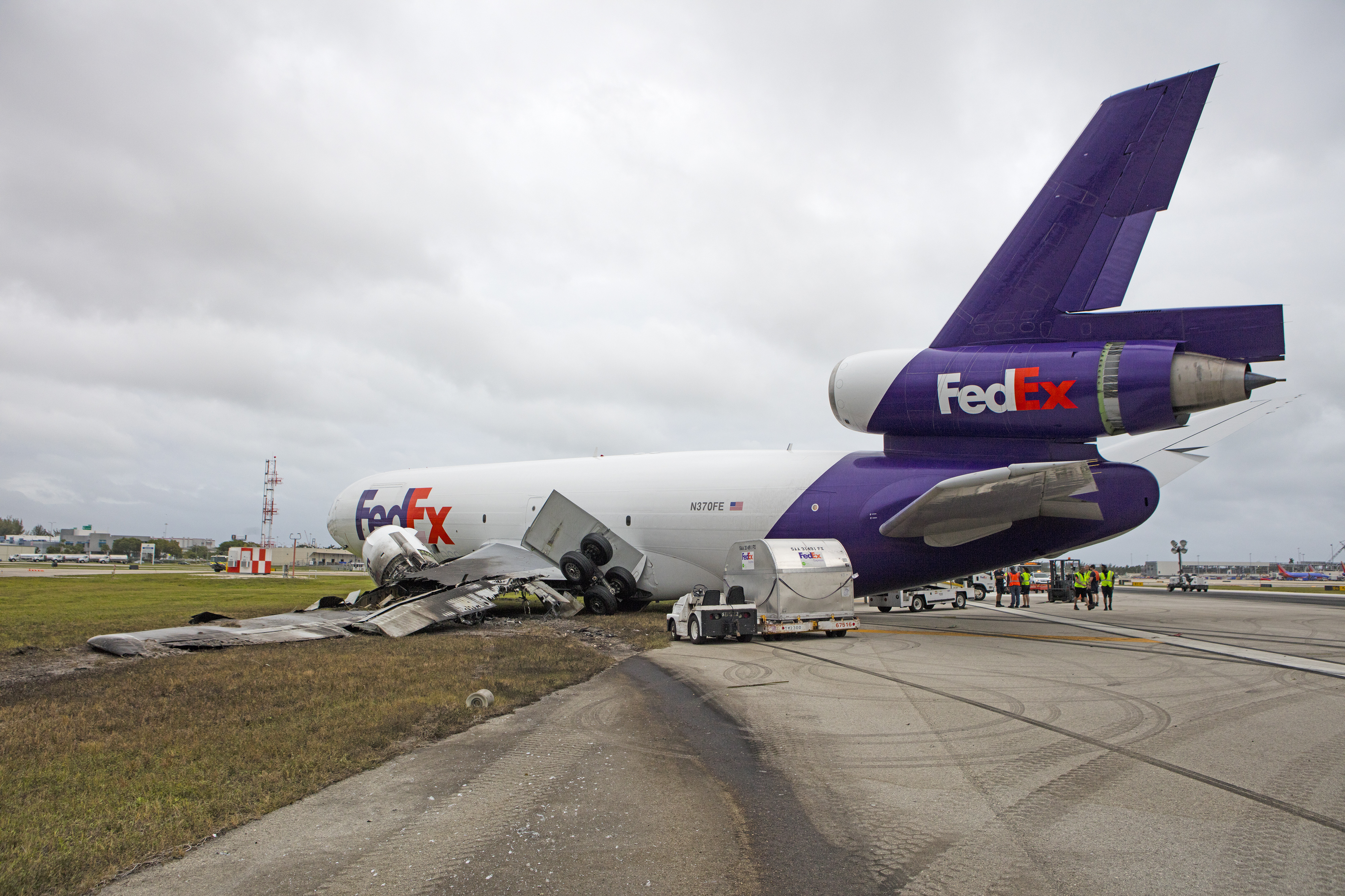 The final resting position of a FedEx MD-10-10F after it left the runway following the collapse of the left main landing gear during an attempted landing at Ft. Lauderdale-Hollywood International Airport is depicted in this Oct. 29, 2016, photo of the accident site. (NTSB Photo by Dan Bower)